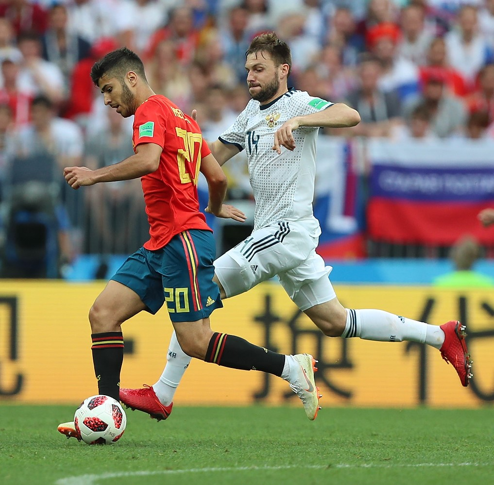 Vladimir Granat, Marco Asensio